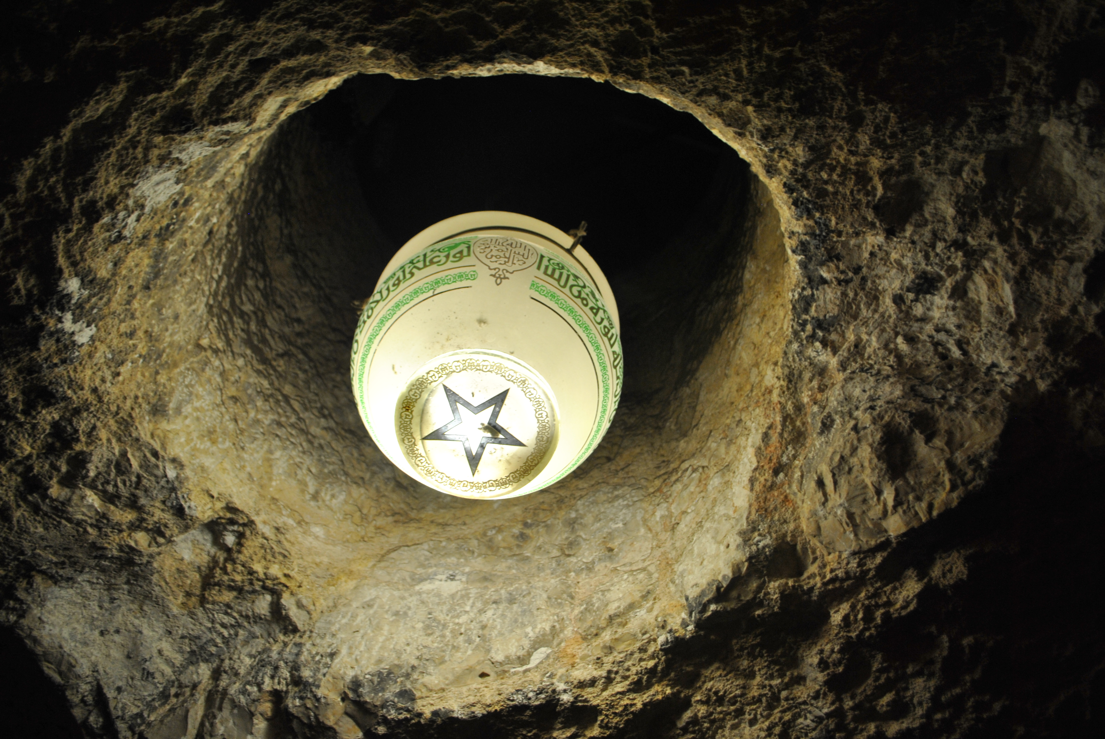 Photo taken under the Foundation Stone, in Dome of the Rock, Temple Mount, Jerusalem